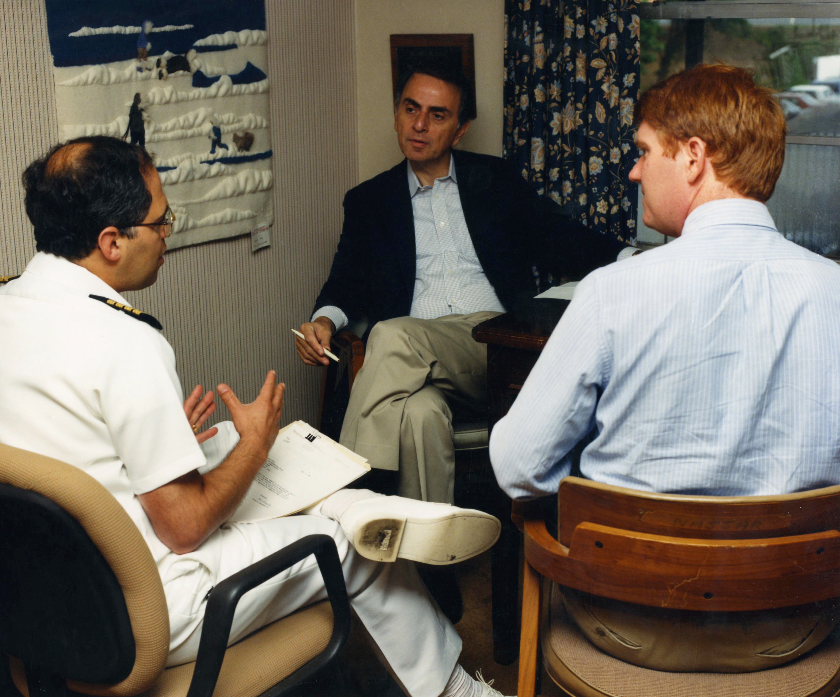 This photograph shows Professor Carl Sagan of Cornell University as he meets with two Centers for Disease Control and Prevention (CDC) employees at the Roybal Campus in Atlanta, Georgia. Dr. Carl Sagan, an astronomer and Pulitzer-prize-winning author, played a leading role in the American space program since its inception. Beginning in the 1950s, Dr. Sagan developed what was to become a long-standing relationship with NASA as one of their consultants. He was also a part of the organization’s astronaut training program, working one on one with the Apollo astronauts by briefing them before their flights to the Moon. He also participated in experimental activities on a number of space programs including the Mariner, Viking, Voyager, and Galileo expeditions throughout the solar system, and beyond. Content Providers(s): CDC/ VEC Copyright Restrictions: None. This image is in the public domain and thus free of any copyright restrictions. As a matter of courtesy we request that the content provider be credited and notified in any public or private usage of this image.